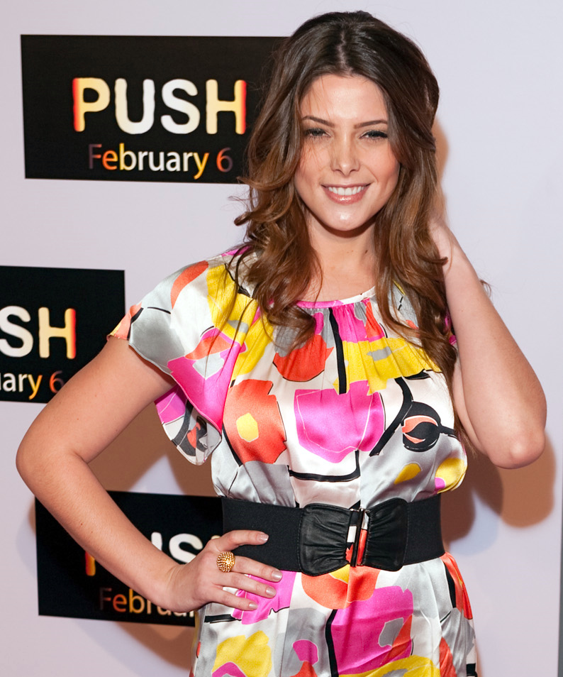 Actress Ashley Greene arrives at the premiere of "Push", Mann Theater, Westwood.